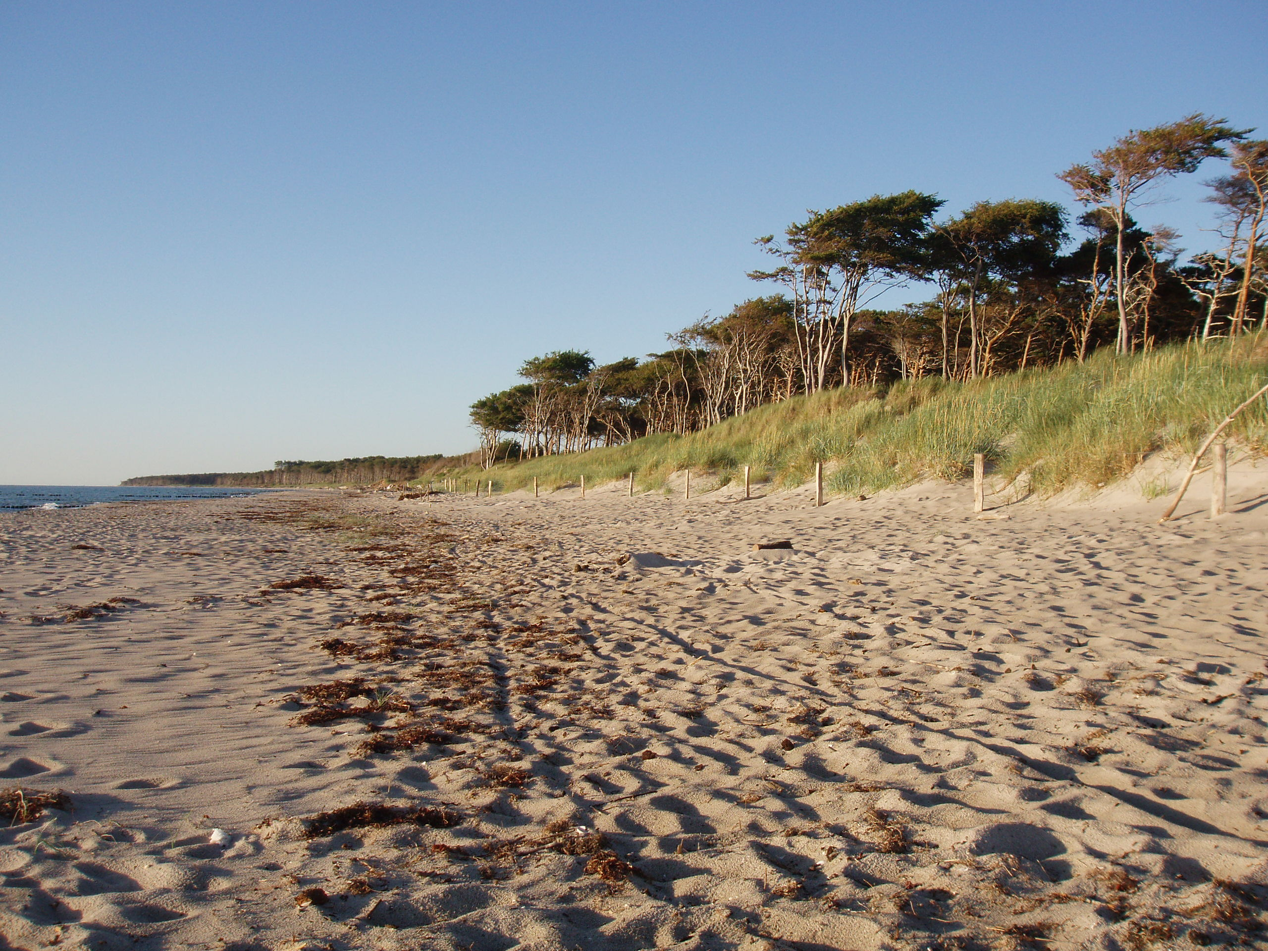 On the west coast of peninsula Darß in Germany.